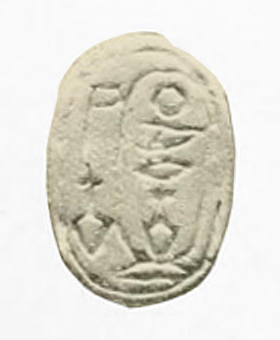 Green glazed steatite scarab (type B) bearing the cartouche of pharaoh Merneferre (Ay): - mr-nfr-Rˁ Unknown provenience, 13th dynasty, Second intermediate period. London, British Museum EA 16567.